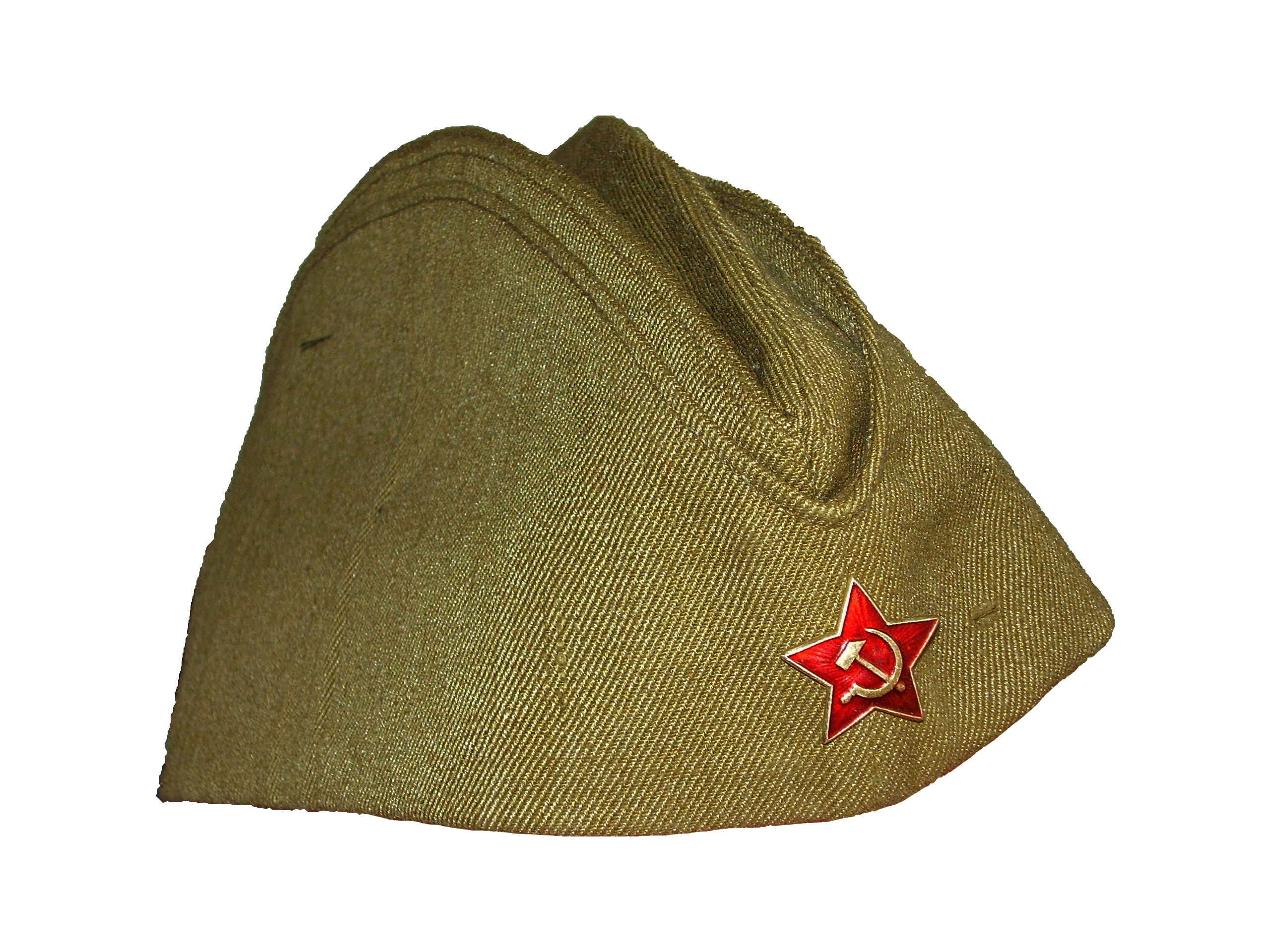 garrison cap of USSR